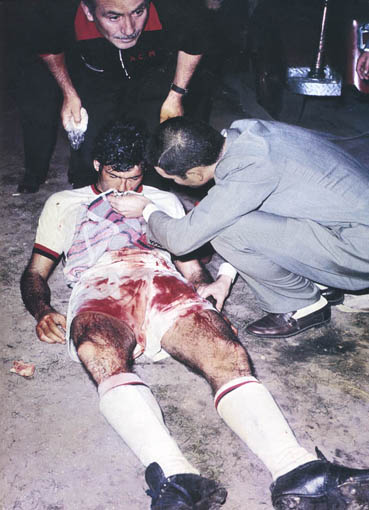 French-Argentine player of A.C. Milan Néstor Combín, after being pummelled during the Intercontinental Cup's 2nd leg vs. Estudiantes de La Plata, played in Buenos Aires.